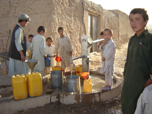 Tube well in a village of the province of Mazaar in Afghanistan